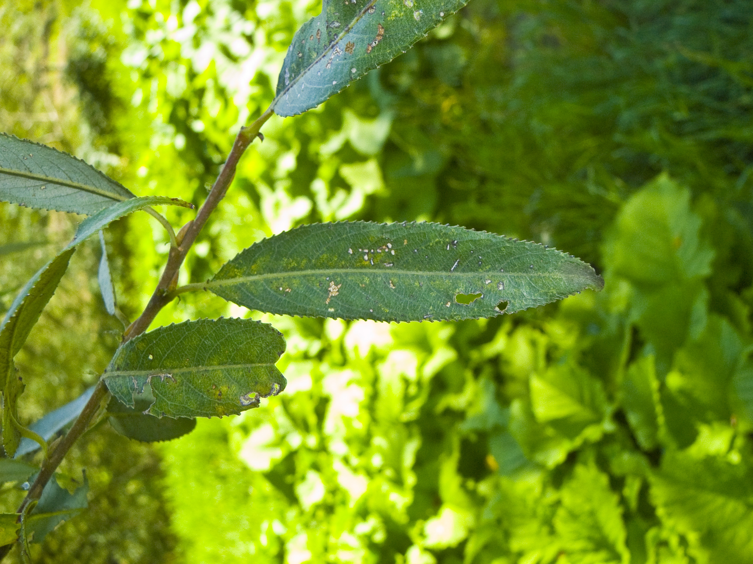 Leaf of the Crack Willow (Salix fragilis) in the New Botanical Garden Marburg, Hesse, Germany